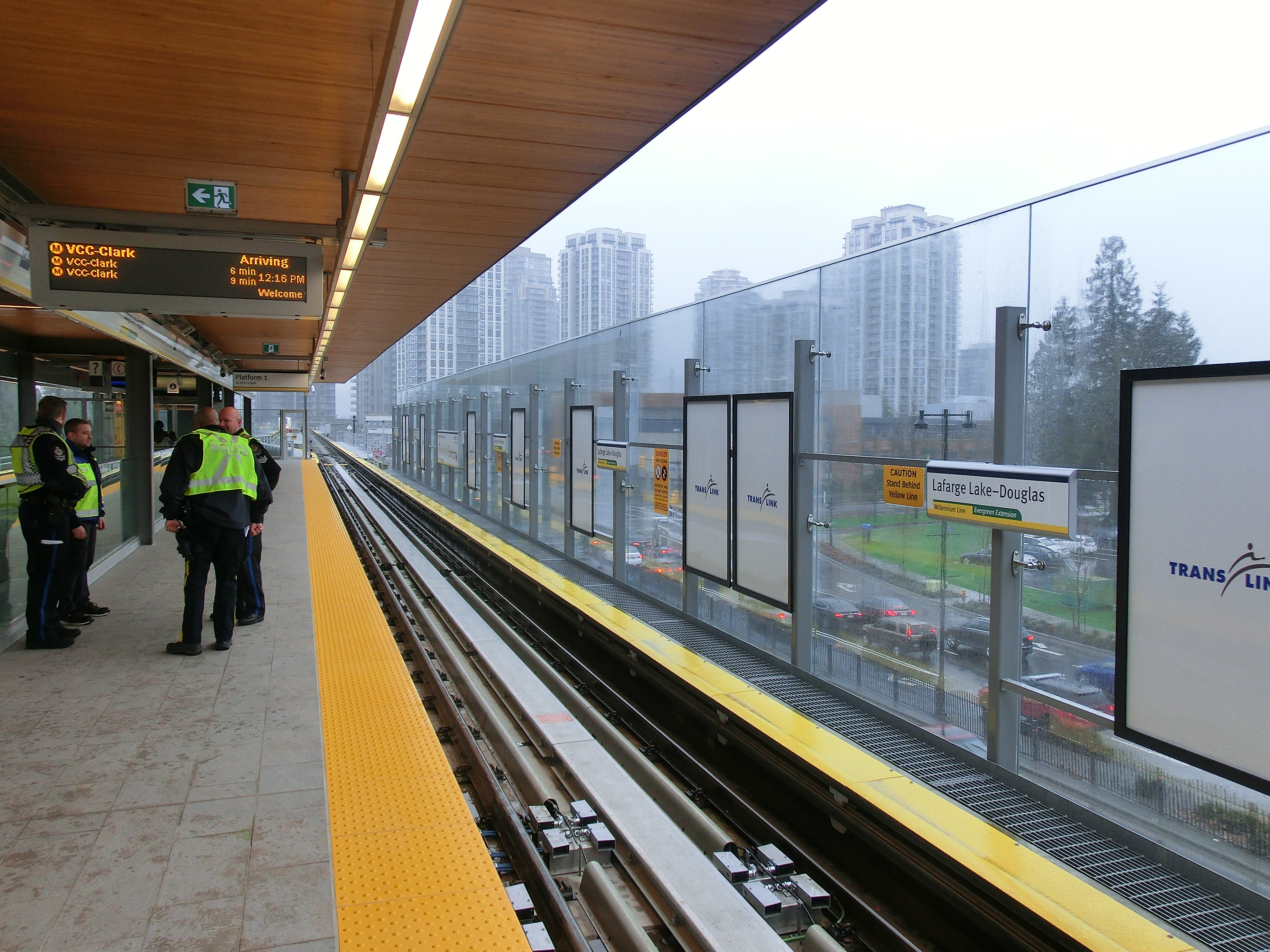 Lafarge Lake–Douglas SkyTrain station